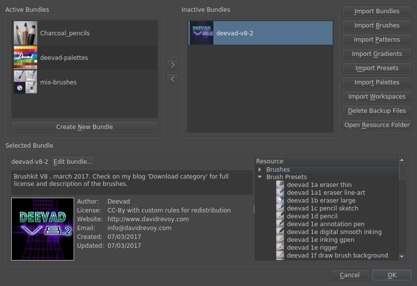 Krita's resource manager with bundle loader.